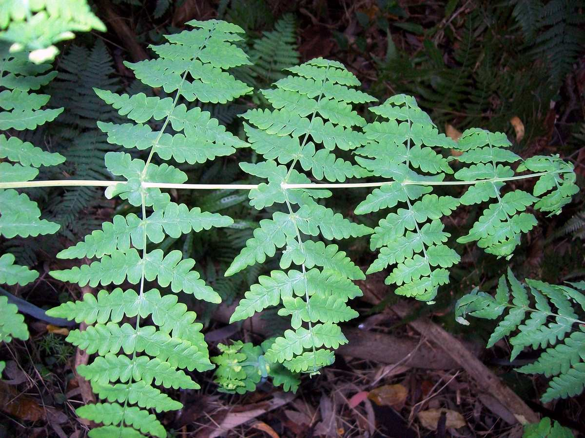 Histiopteris incisa, Dee Why, Australia